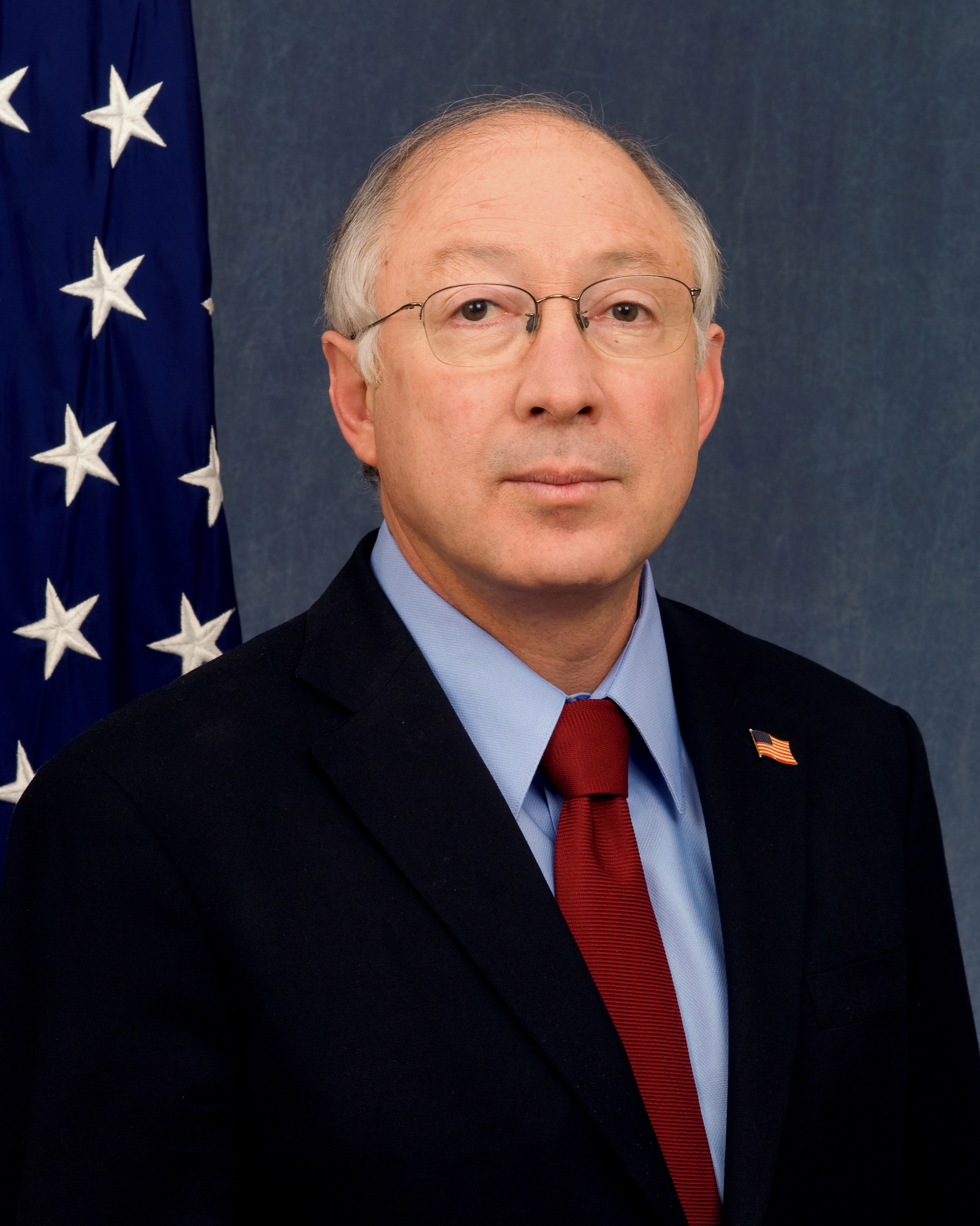 Official portrait of Secretary of the Interior Ken Salazar.